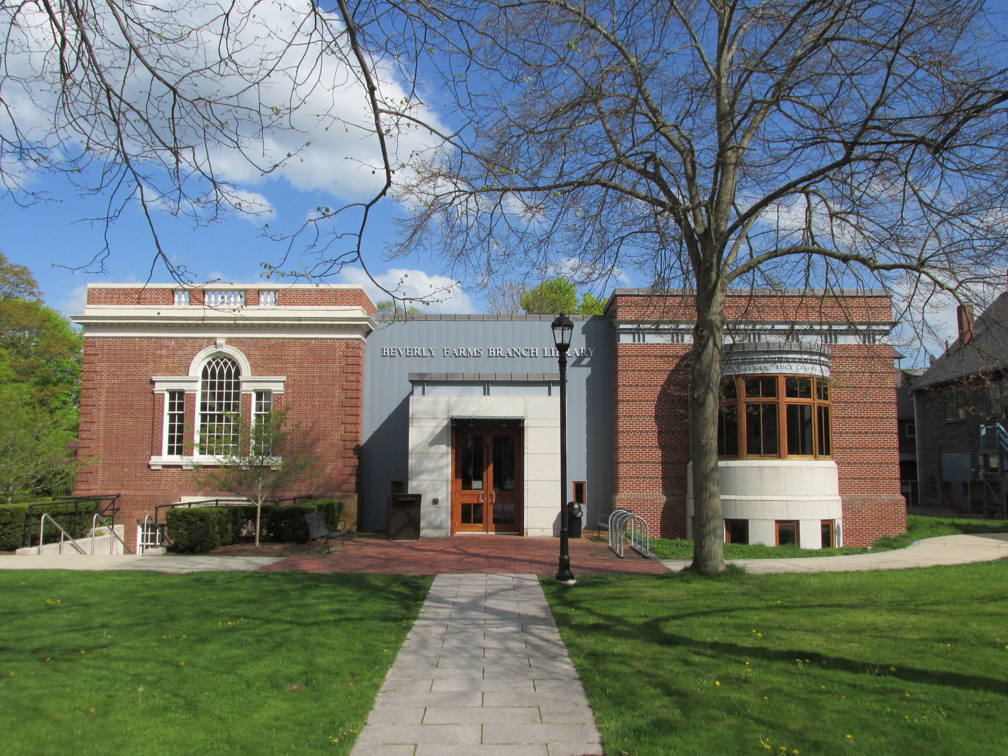 Beverly Farms Branch Library, Beverly Farms Massachusetts